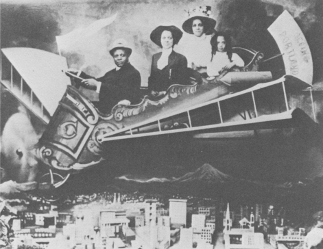 1910 photo of (from left to right) McCants Stewart (1877 - 1919), first African American lawyer in Oregon, along with his wife Mayme Delia Weir, sister-in-law Harriett Anna Weir and daughter Mary Katherine Stewart.